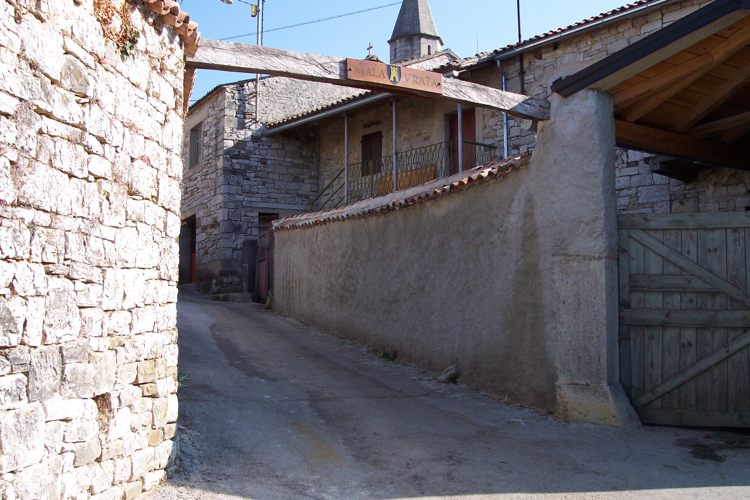 Mala Vrata (Little Door) in Beram